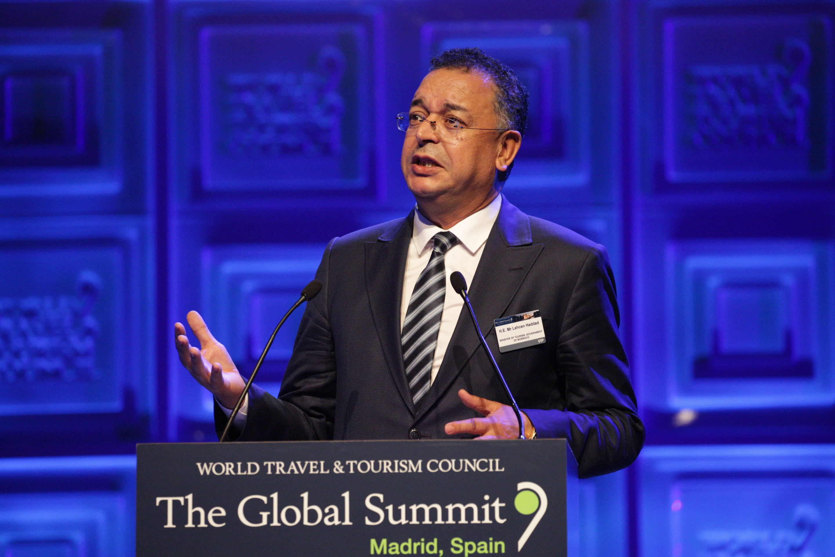 WTTC Global Summit 2015 World Travel & Tourism Council Flickr images